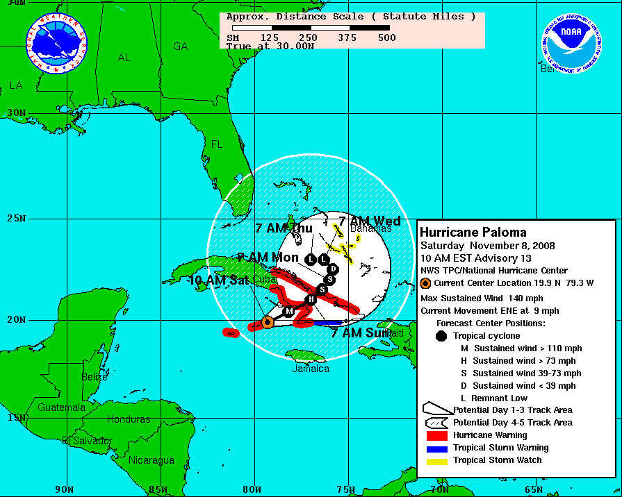 A five day forecast track of Hurricane Paloma at 10 a.m. EST on November 8, 2008.